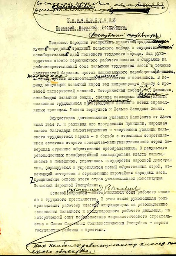 Draft of Constitution of the People's Republic of Poland in Russian with personal remarks of Joseph Stalin